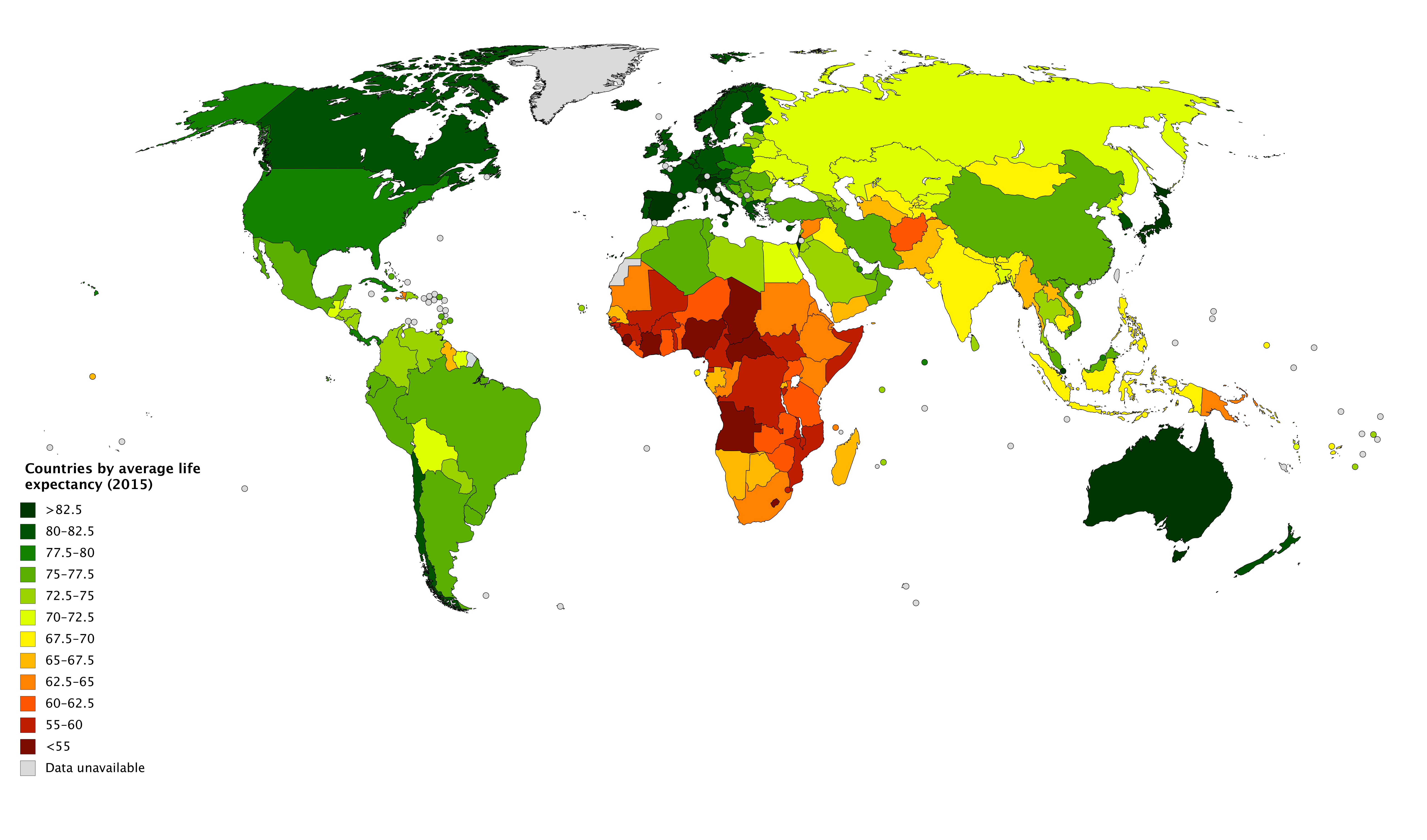 A colour-coded map showing the average life expectancy of countries, based on 2015 statistics from the World Health Organization, published in May 2016.